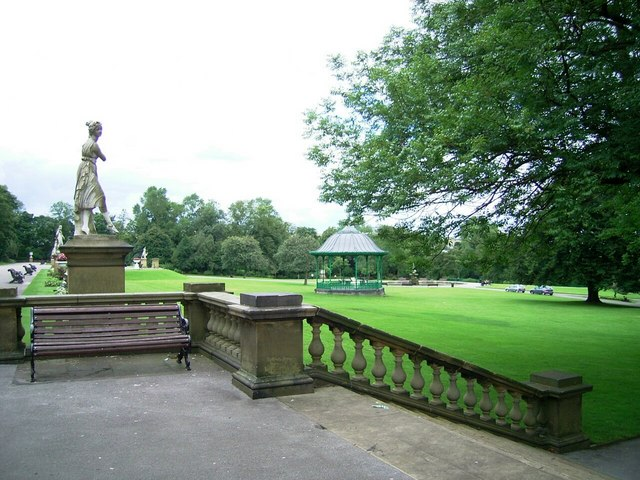 Peoples Park